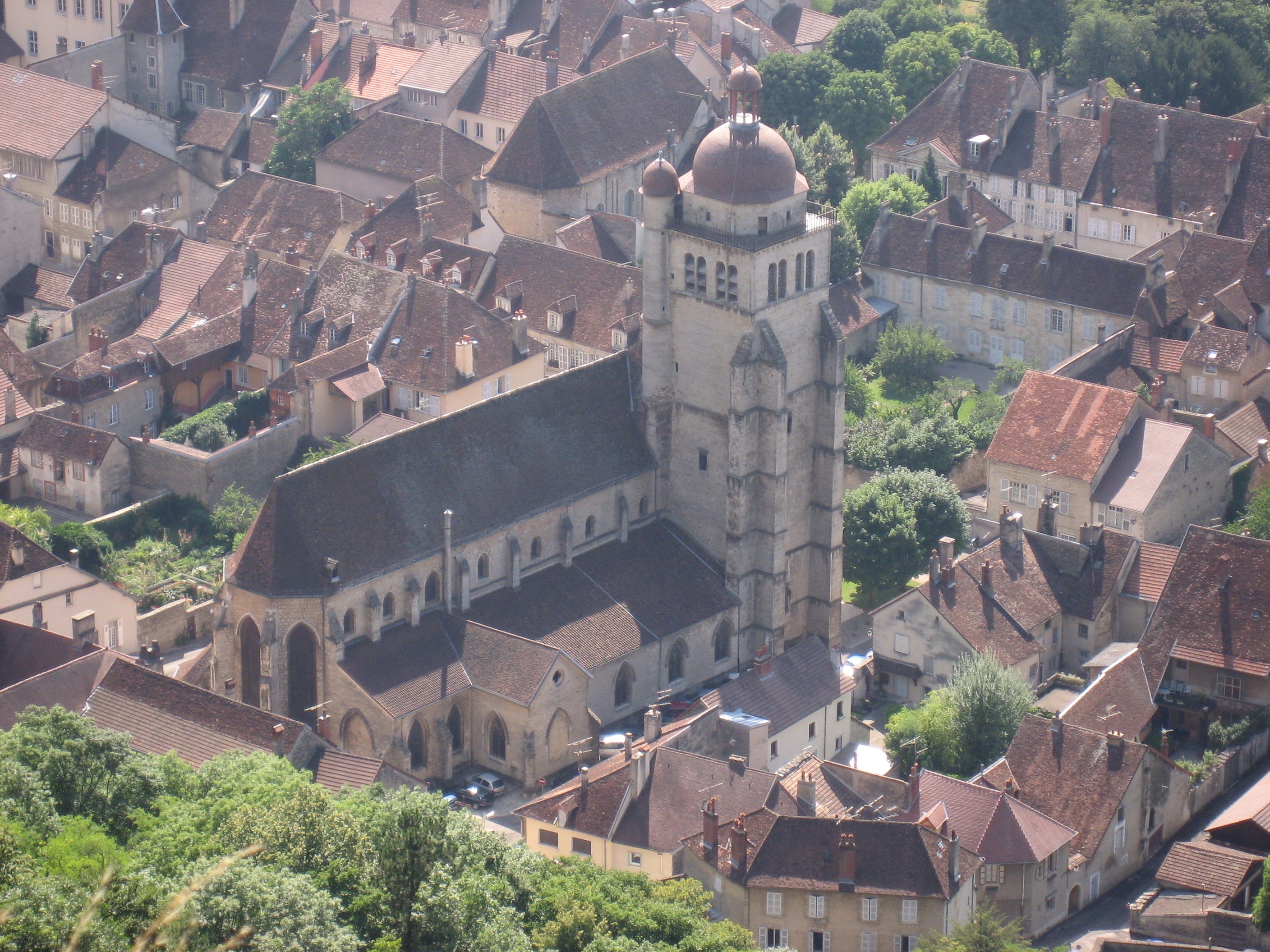 The church 'Collégiale St.Hippolyte' at Poligny (Jura), France